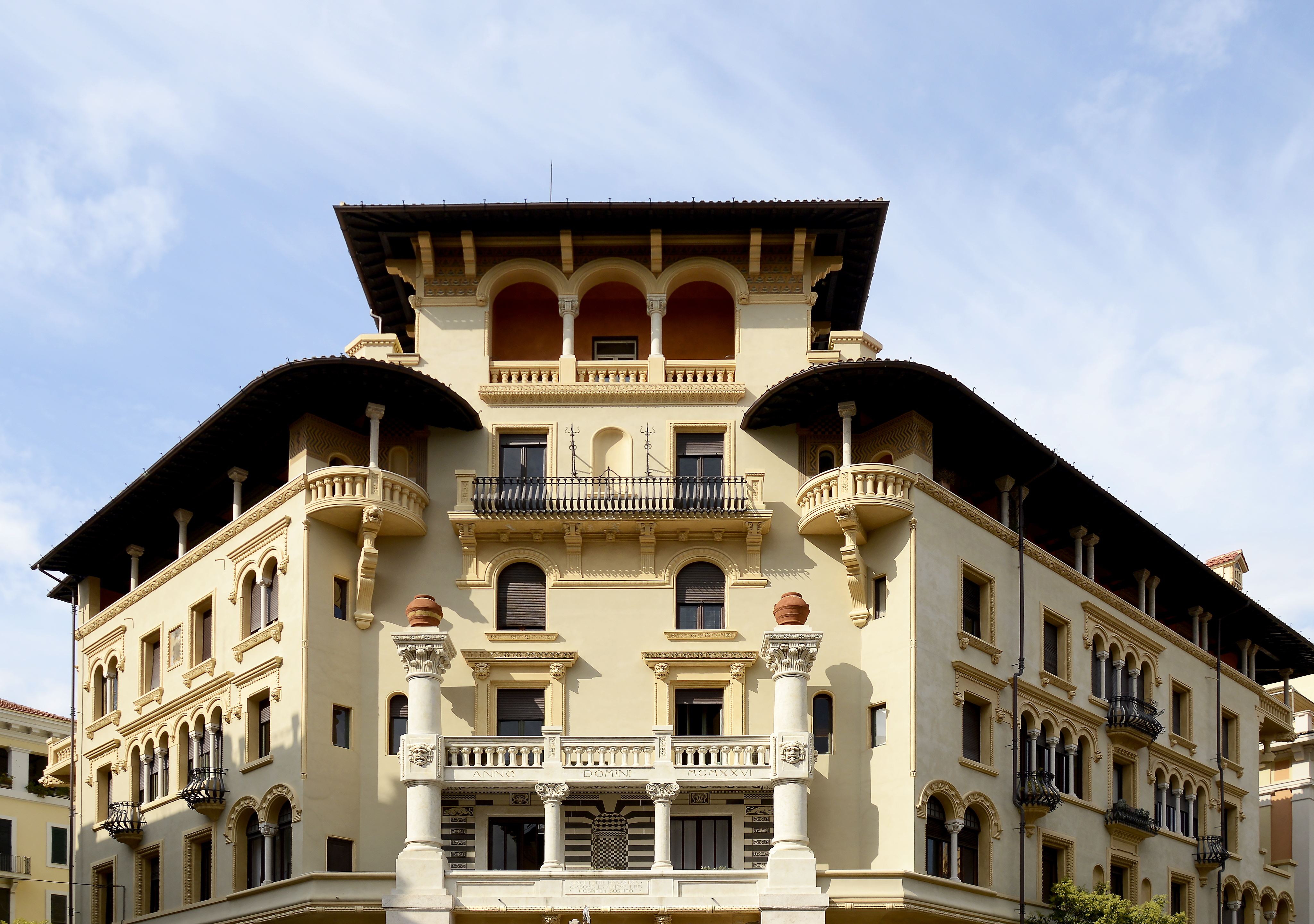 Yellow Palace in Quartiere Coppedè